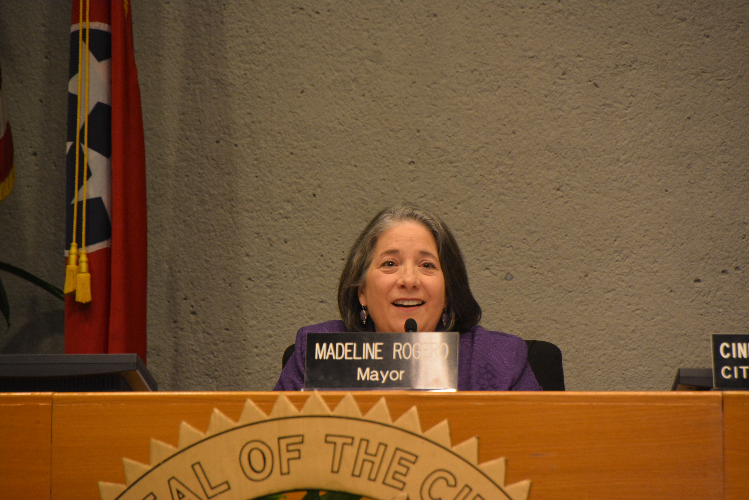 Mayor Madeline Rogero at City Council 02/04/14